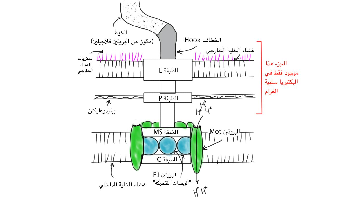 An illustration in Arabic drown by myself المتخصص Based on Brock Biology of Microorganism's Page 103 Figure 3.41. 13th Edition